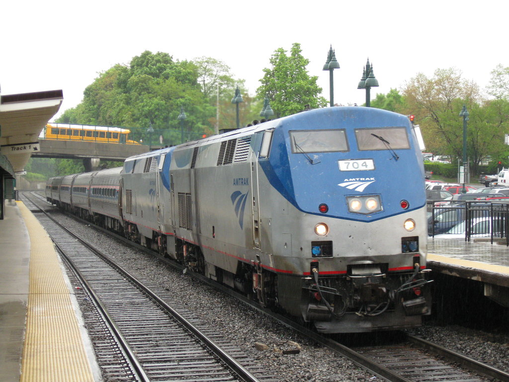 Amtrak P32 #704 pulls Train 235 into Poughkeepsie, en route to Albany-Renssalaer.